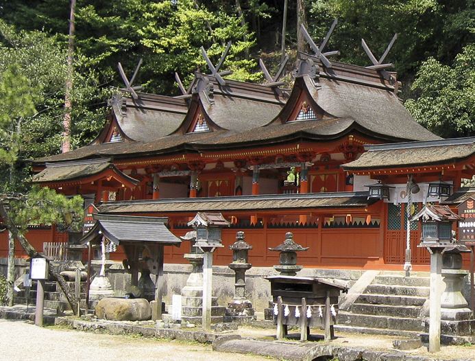 Udamikumari Shrine Kamigu The main shrine of Udamikumari Shrine Kamigu (left) is jointed 3 shinto shrines in the Kasuga style, built in 1320 (the end of the Kamakura period), had Japanese national treasure status. Massha Kasuga Shrine (center) in the Kasuga style, built in the middle of the Muromachi period, had Japanese important cultural property status. Massha Munakata Shrine (right) in the Nagare style, built in the end of the Muromachi period, had Japanese important cultural property status.